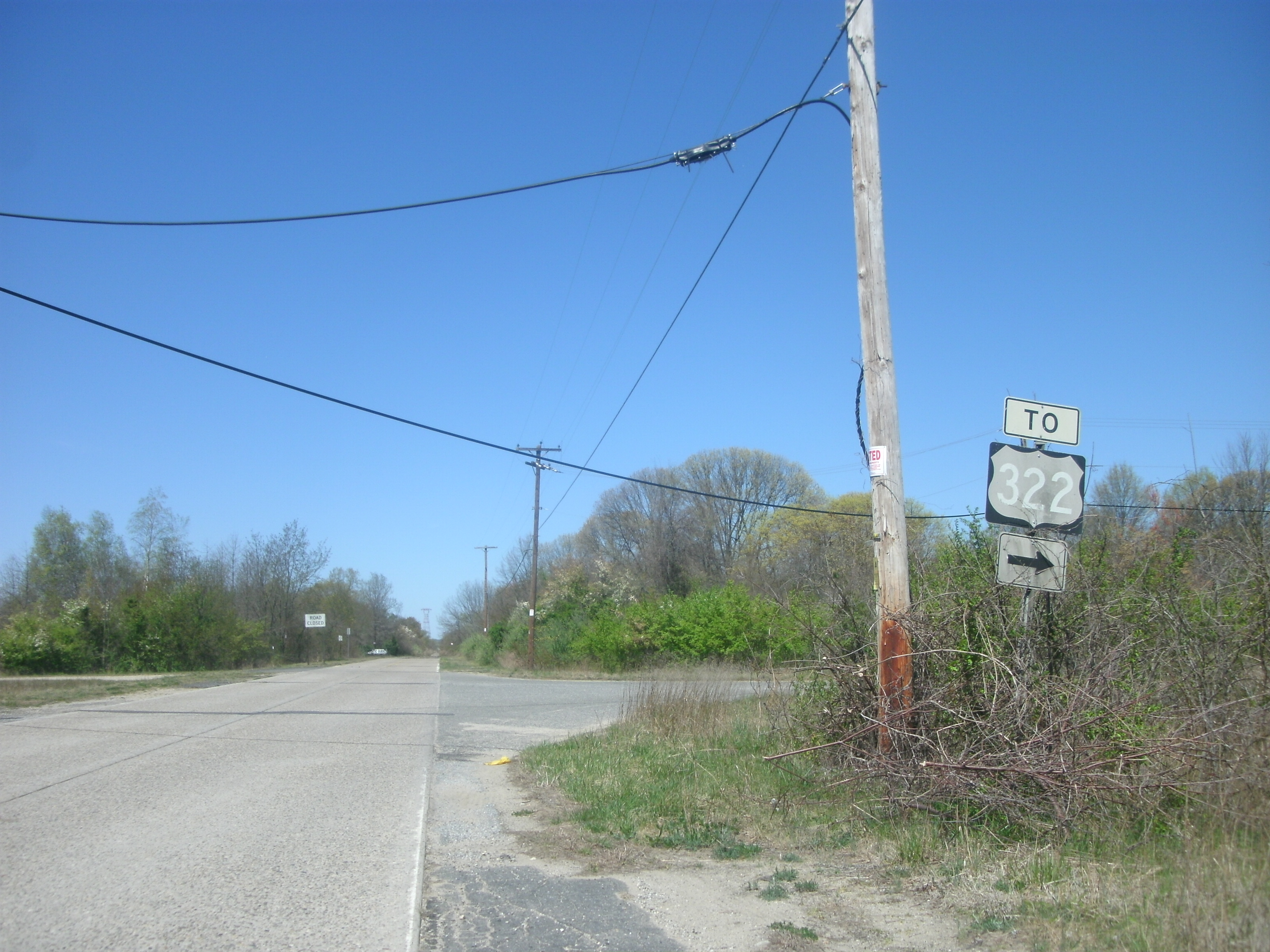 New Jersey Route 324 at its junction with Springers Lane in Logan Township. An old U.S. Route 322 shield is present to the shoulder.